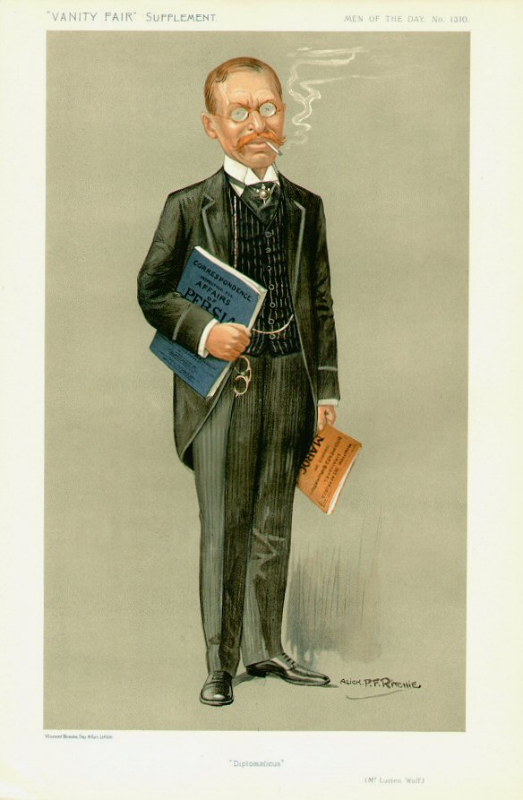 Caricature of Lucien Wolf. Caption read "Diplomaticus".